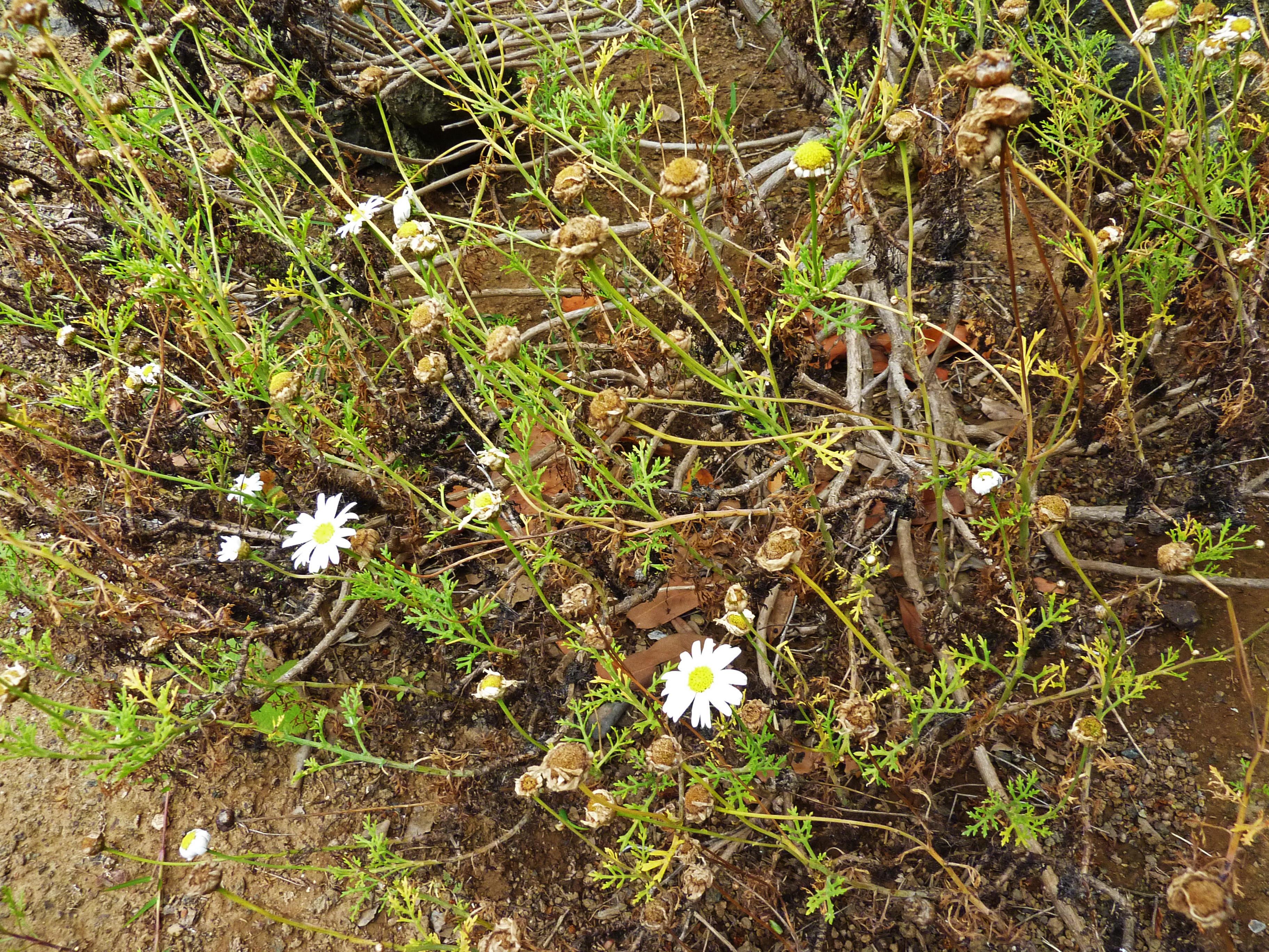 Argyranthemum adauctum subsp. canariense in the Jardín Botánico Canario Viera y Clavijo, Gran Canaria.